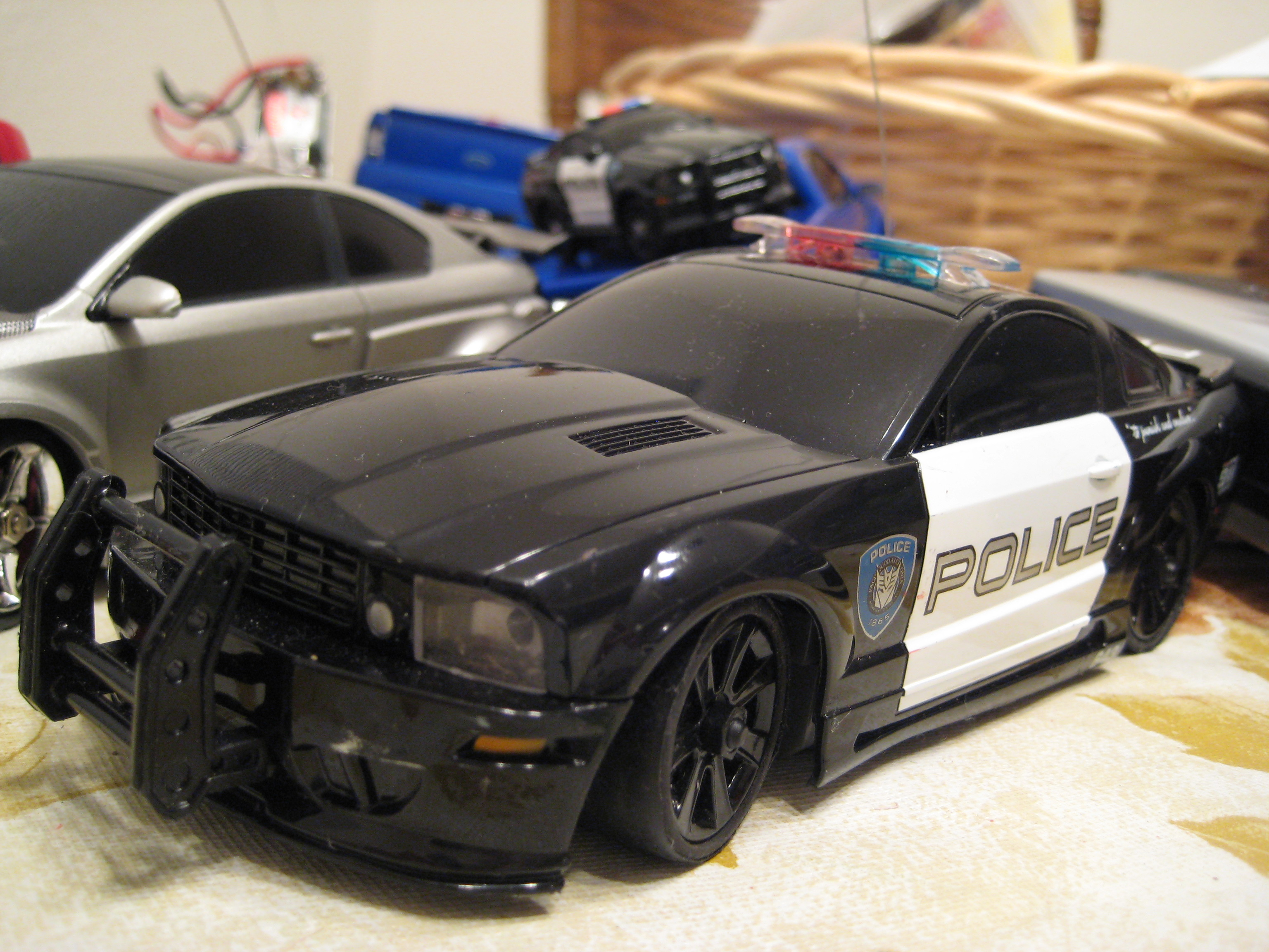 Xmods Saleen S281E Transformers Barricade